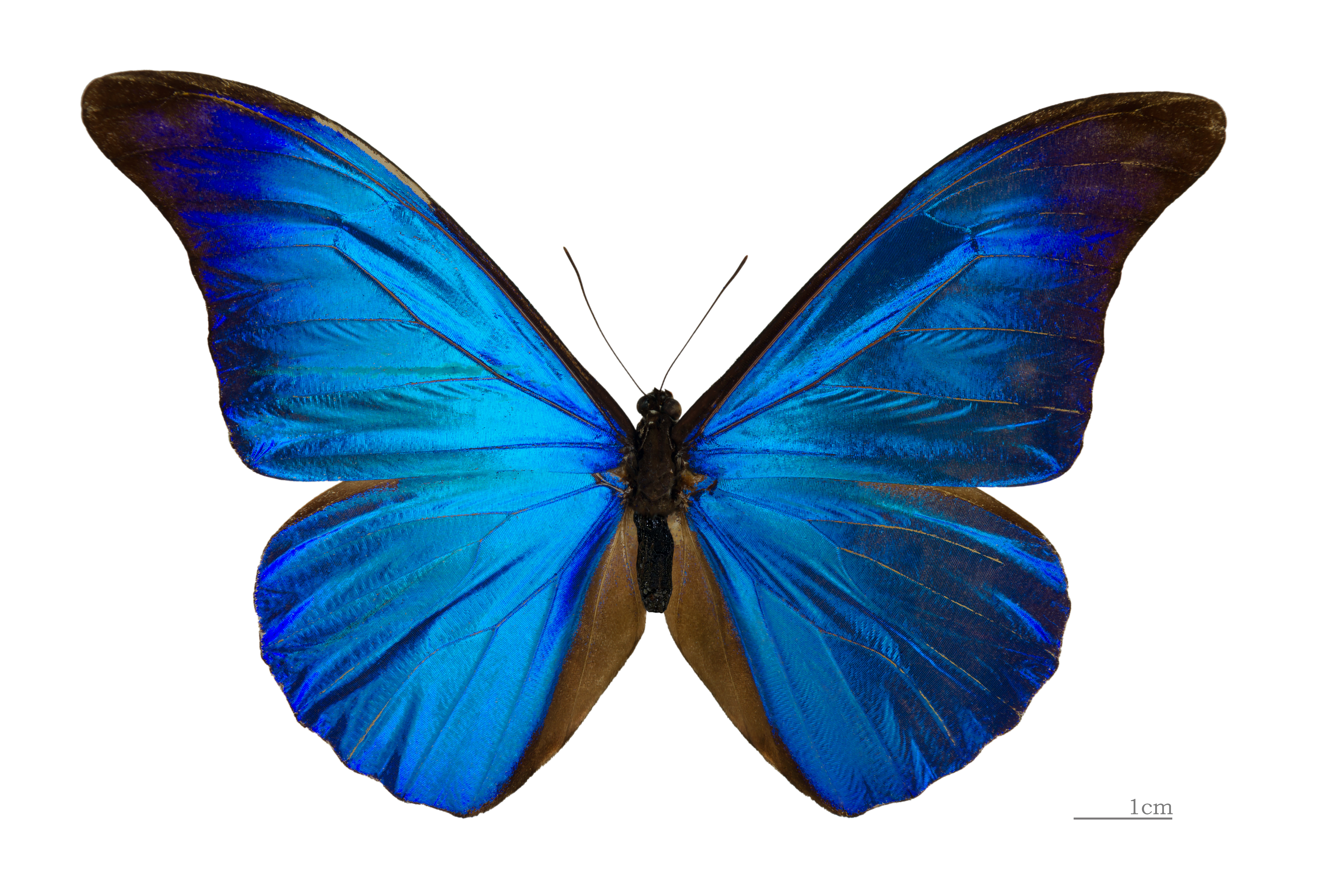 Rhetenor Blue Morpho - Dorsal side